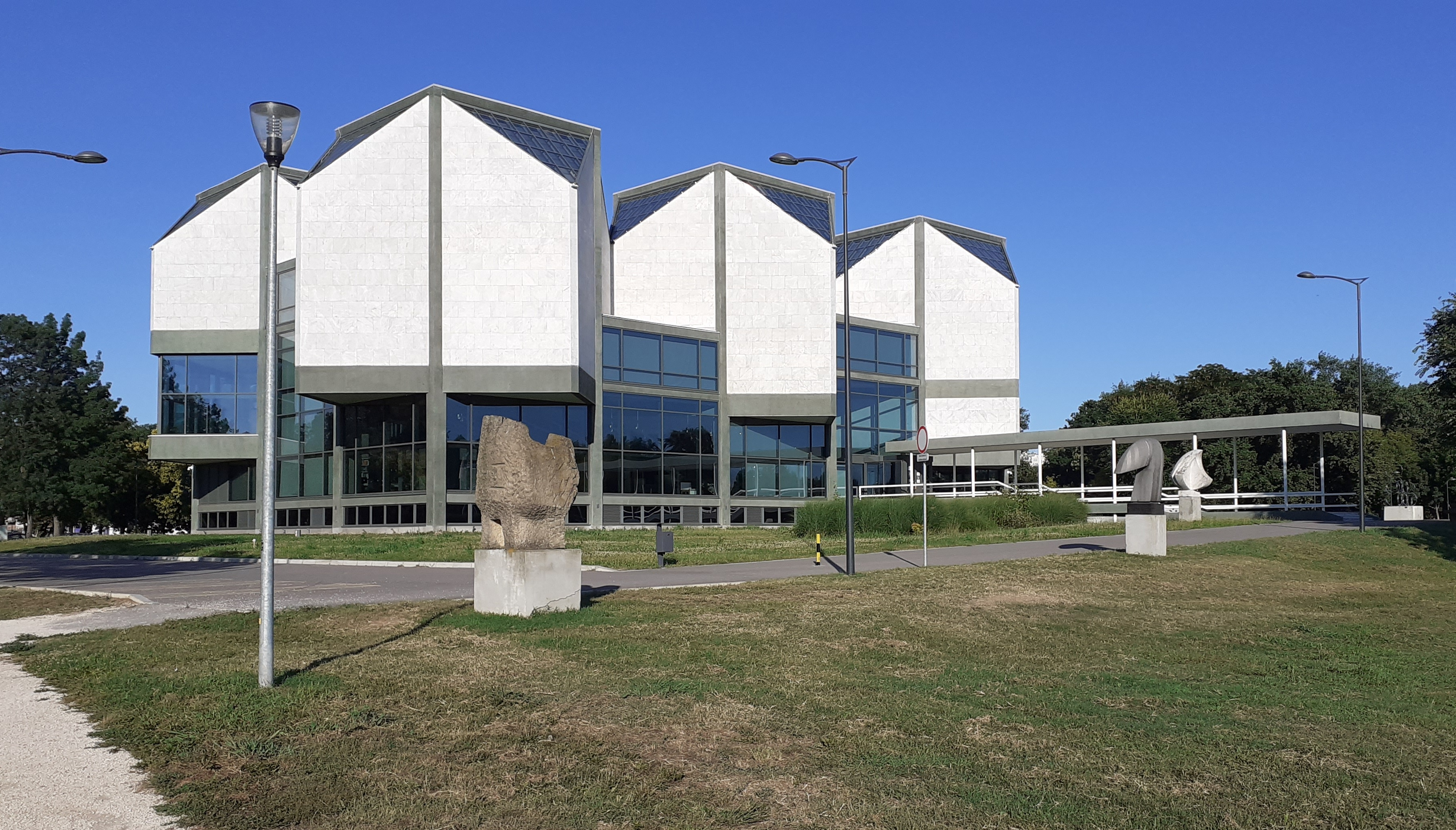 Museum of Contemporary Art, Ušće Park, New Belgrade